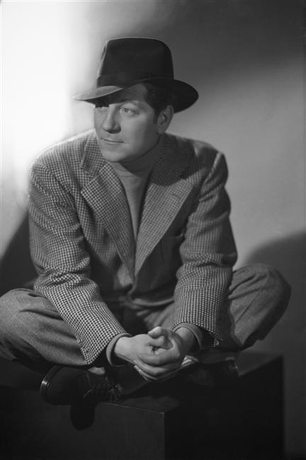 A studio photo of Jean Gabin.